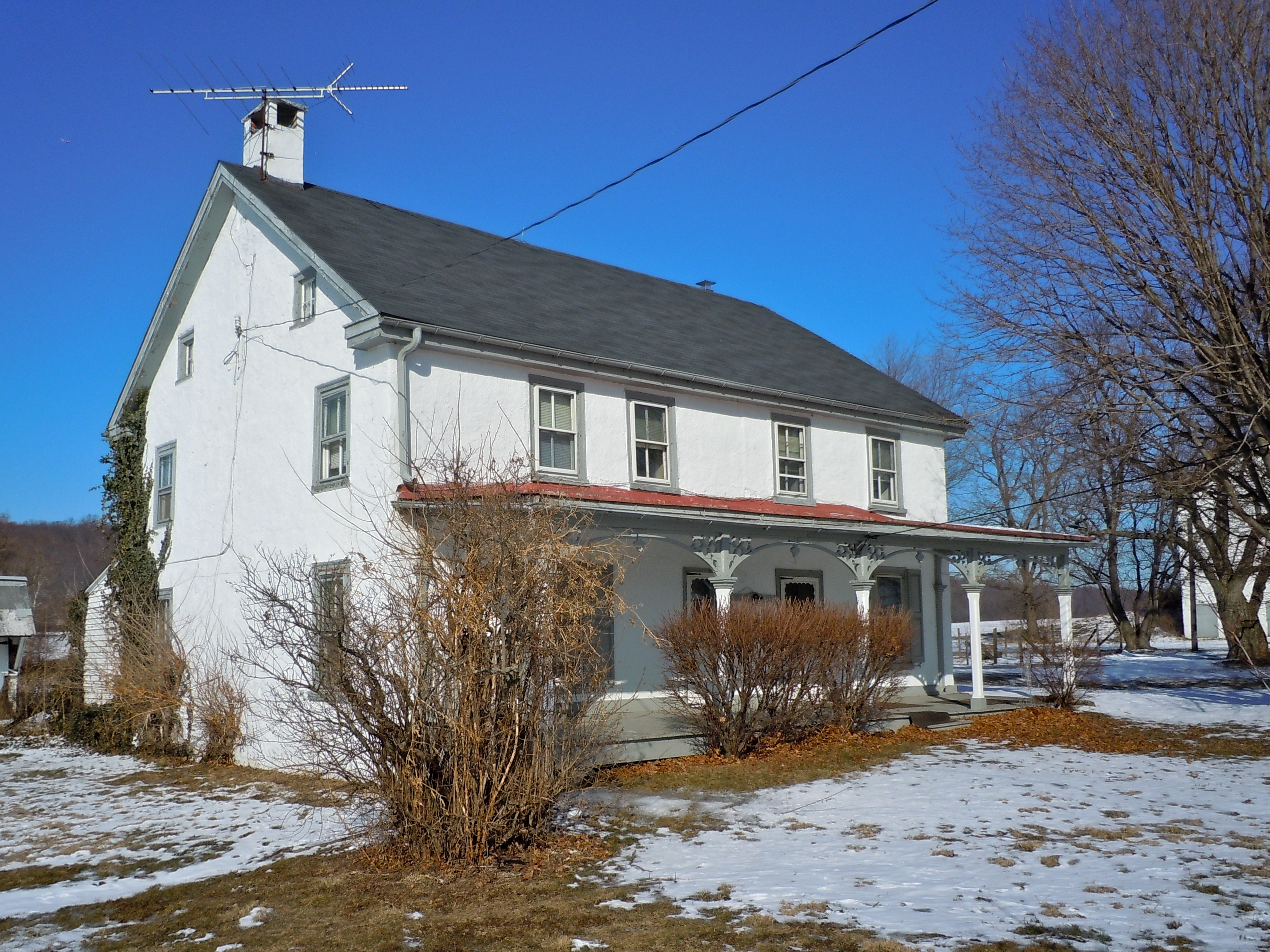 Fox Chase Inn on the NRHP since September 6, 1984. At 613 Swedesford Road, West Whiteland Township, Chester County, near Exton, Pennsylvania. Nice barn next door.